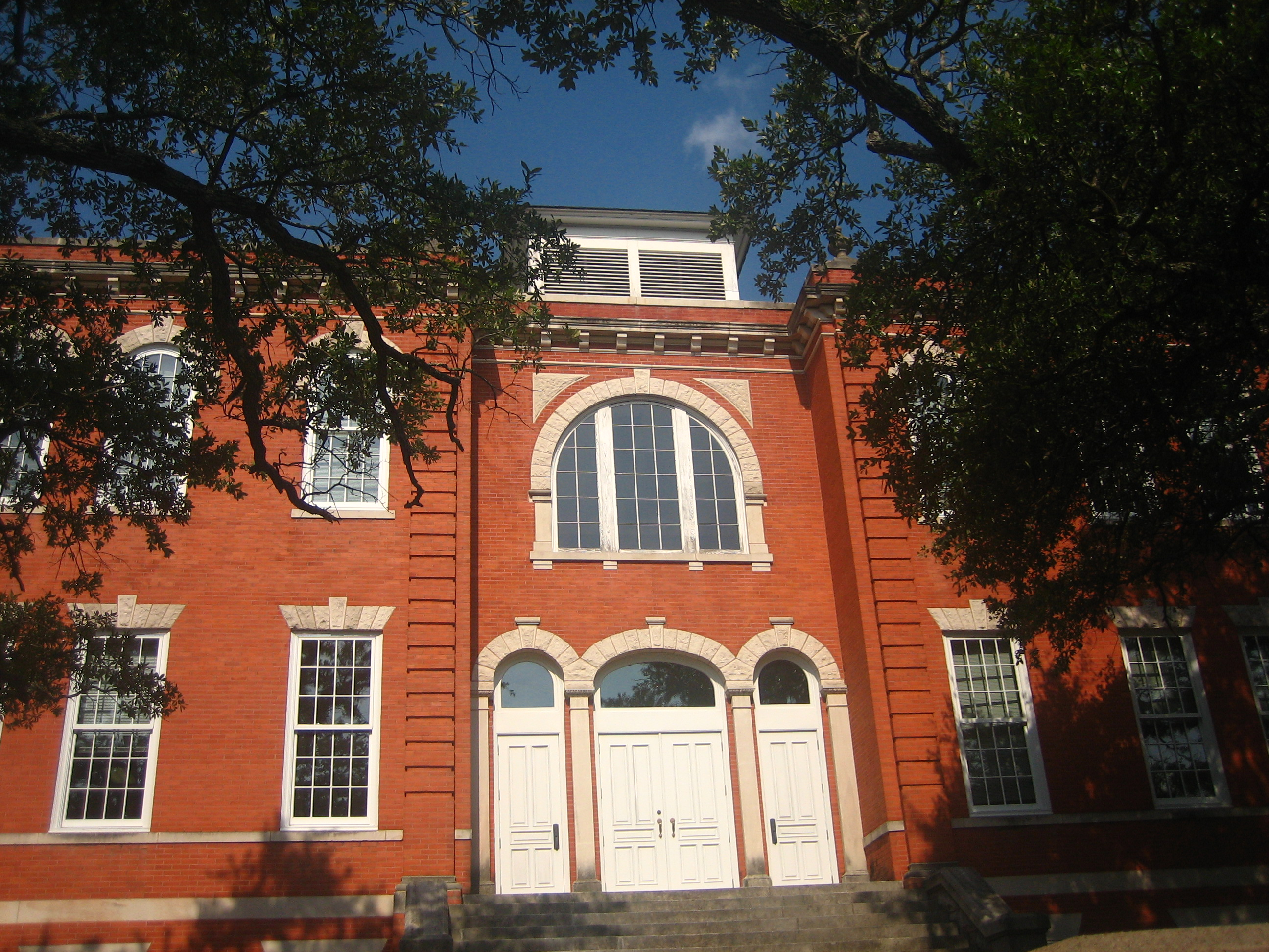 I took photo on Aug. 9, 2008.Billy Hathorn (talk) 23:37, 22 August 2008 (UTC)